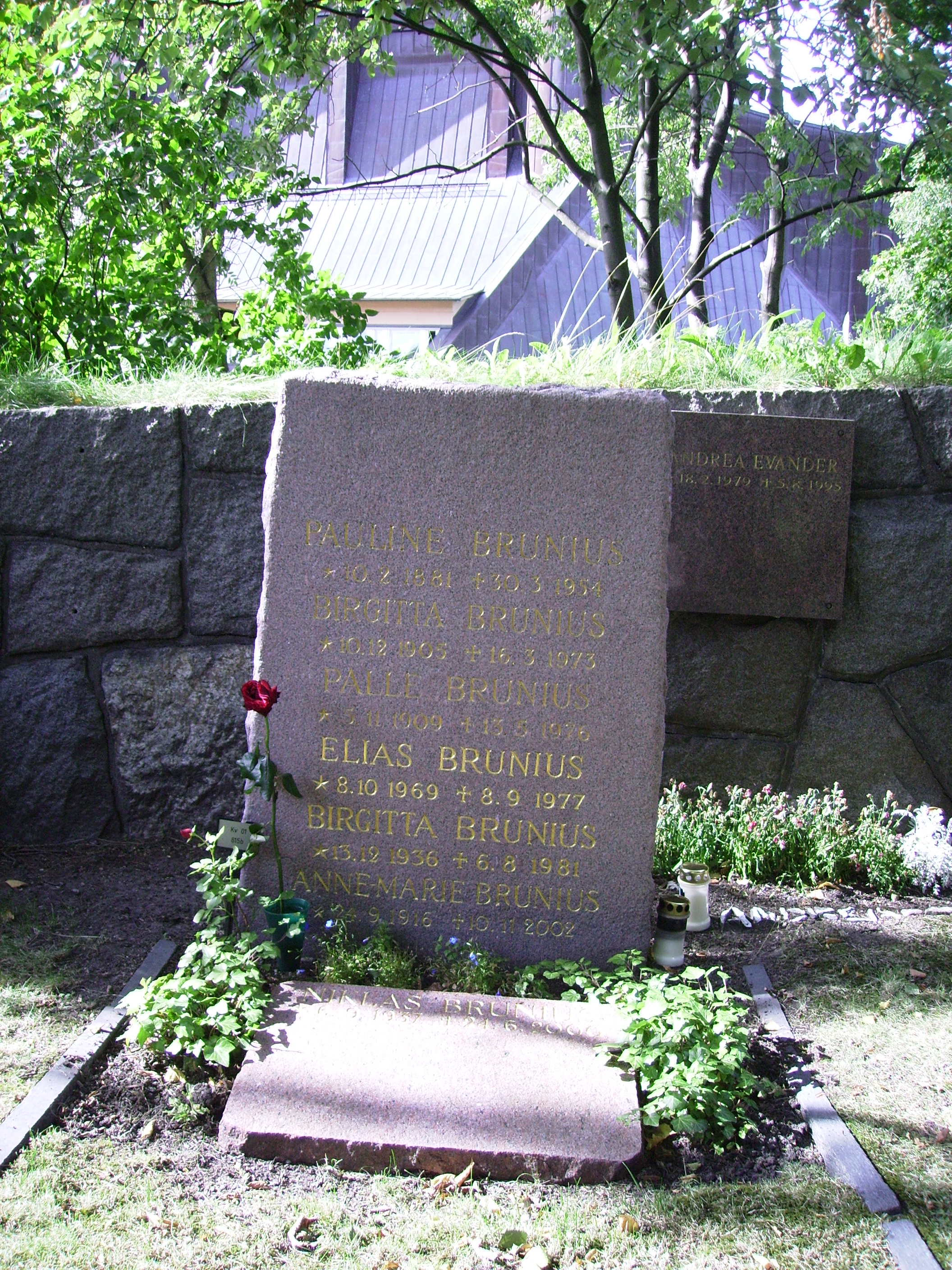 Picture of Palle and Pauline Brunius (actors) grave at Galärvarvskyrkogården in Stockholm